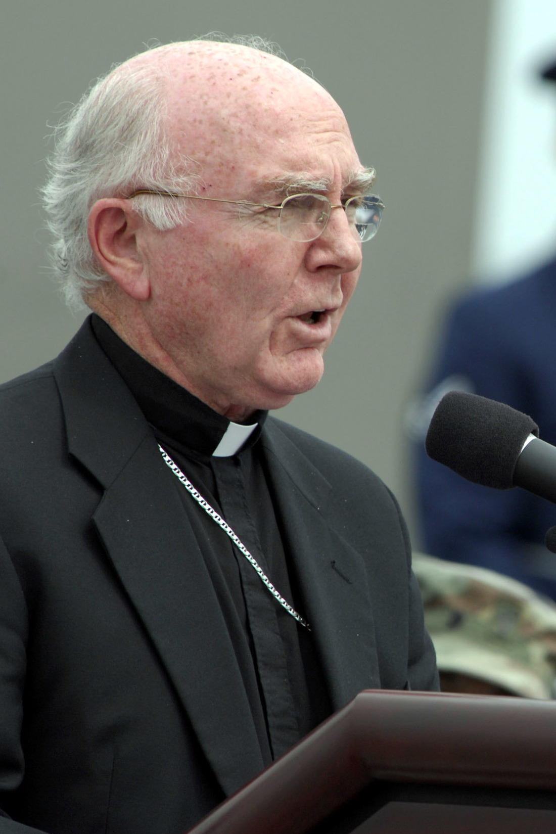 WASHINGTON -Retired Maj. Gen. Bishop William Dendinger, who served as an Air Force chaplain for more than 30 years and retired in 2001 as Chief of the Air Force Chaplain Service made a few remarks during the Chaplain and Chaplain's assistants Wreath Ceremony here at the base of the Air Force Memorial in Arlington, VA just outside Washington, D.C. on April 25. (U.S. Air Force photo by TSgt Cohen A. Young)